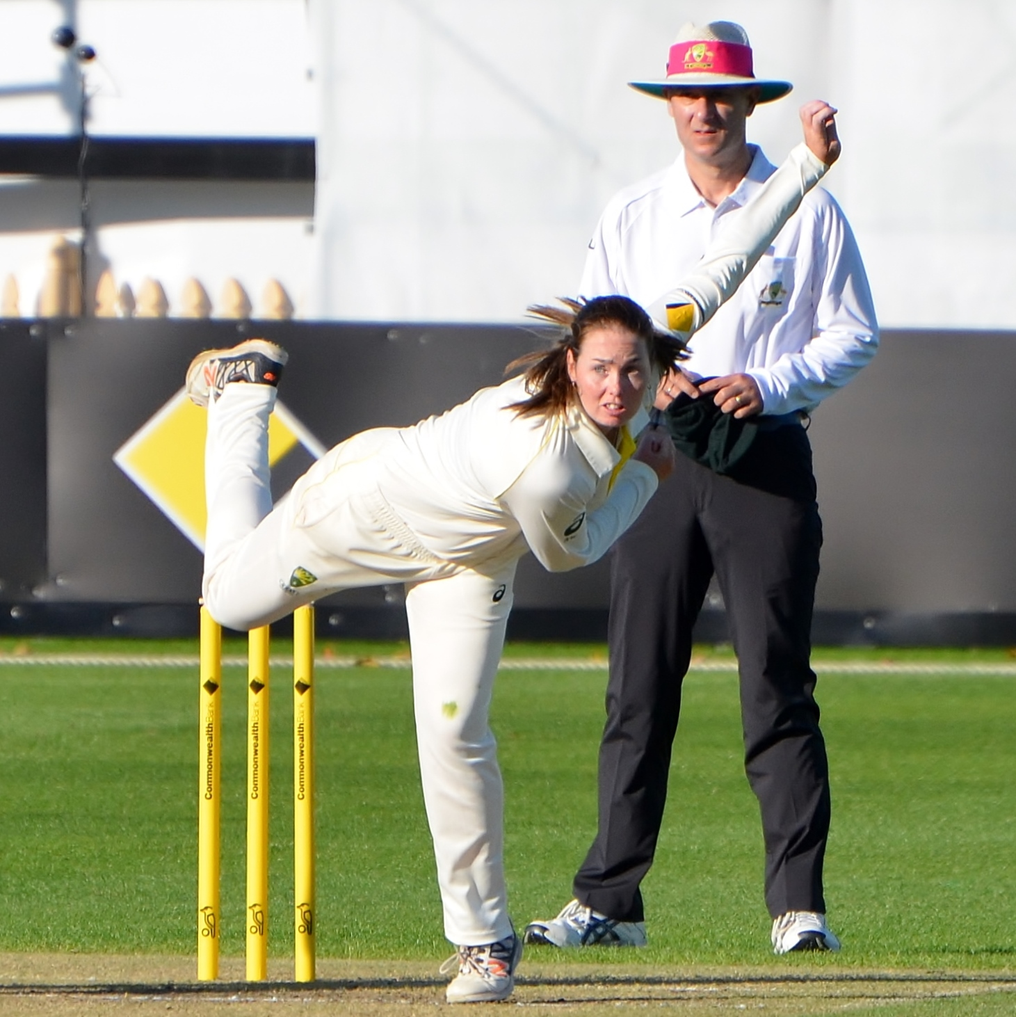 Amanda-Jade Wellington bowling on the first day of the 2017–18 Women's Ashes Test at North Sydney Oval.